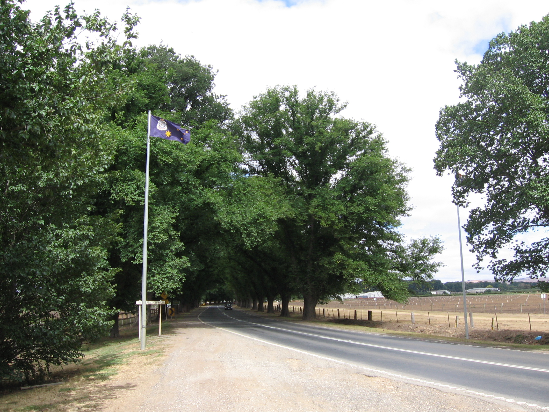 The Avenue of Honour, Bacchus Marsh, Victoria.